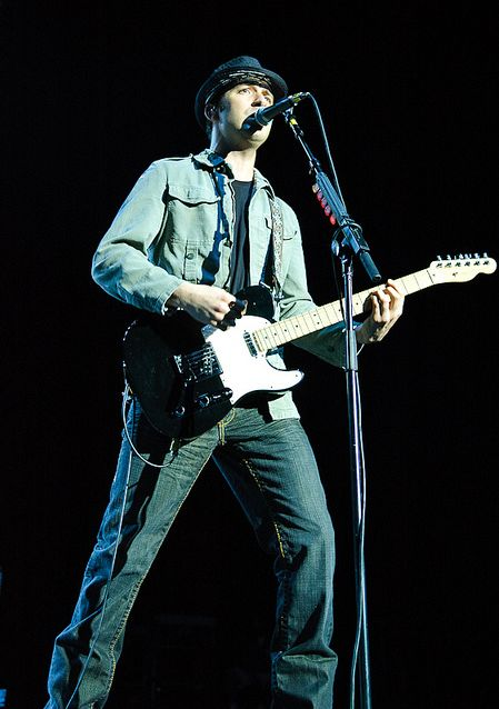 Adam Kowalczyk in concert